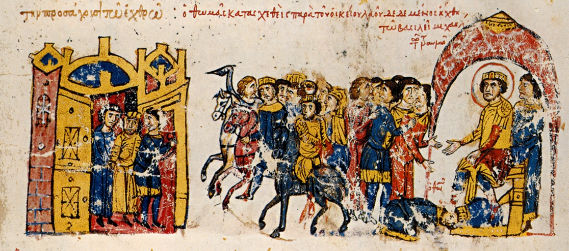 Skyllitzes Matritensis, fol. 37r, detail. Miniature: The capture and punishment of Thomas the Slav by Emperor Michael II. References: Ioannis Scylitzae Synopsis Historiarum. Editio Princeps. Rec. Ioannes Thurn, p. 40, in: Corpus Fontium Historiae Byzantinae 5 Series Berolinensis, 1973 Tsamakda V.: The illustrated chronicle of Ioannes Skylitzes in Madrid, p. 77 Grabar A., Manoussacas M.: L'illustration du manuscript de Skylitzes de Madrid, p. 37